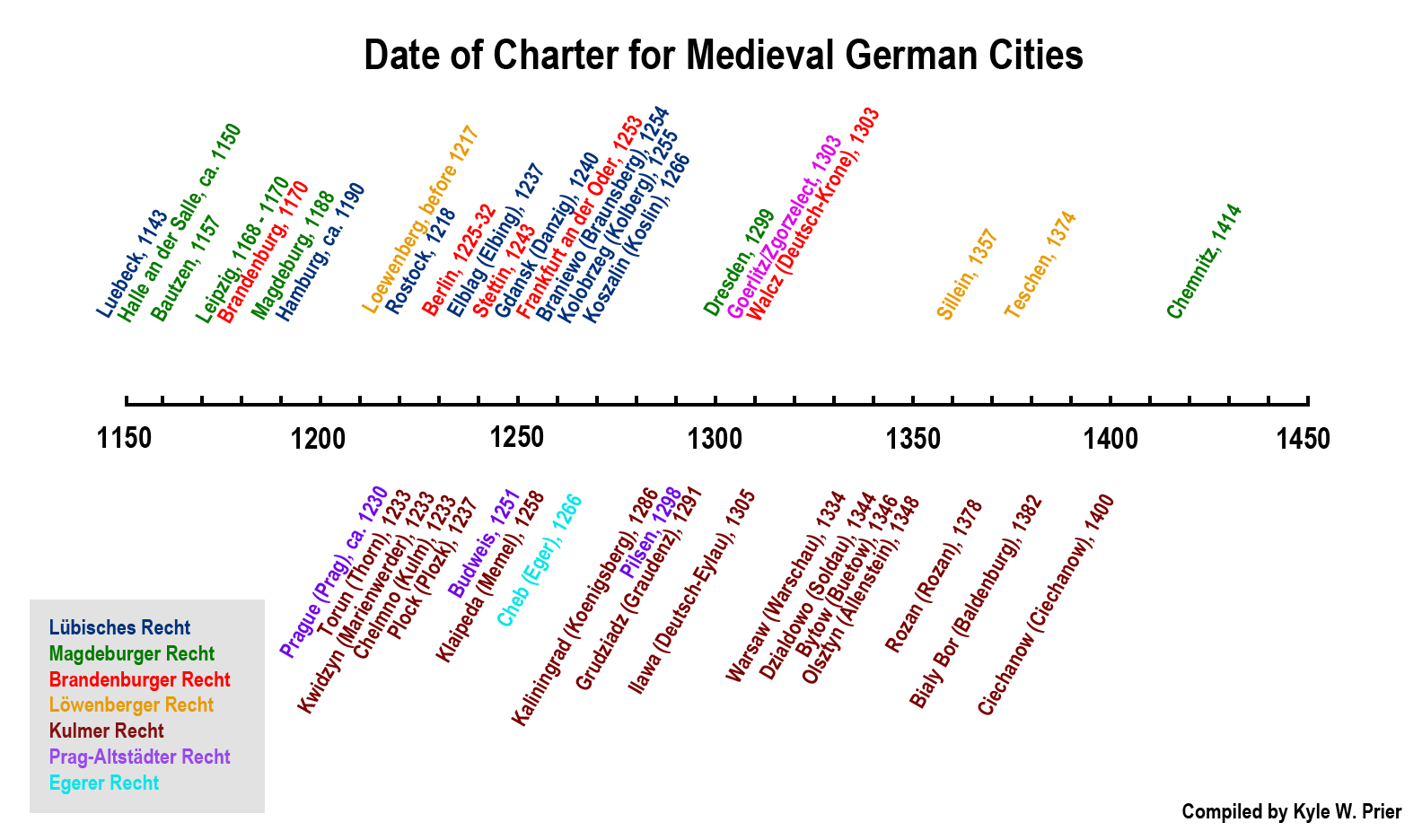 This timeline depicts the years of charter of many medieval German cities and is categorized by the type of Charter.